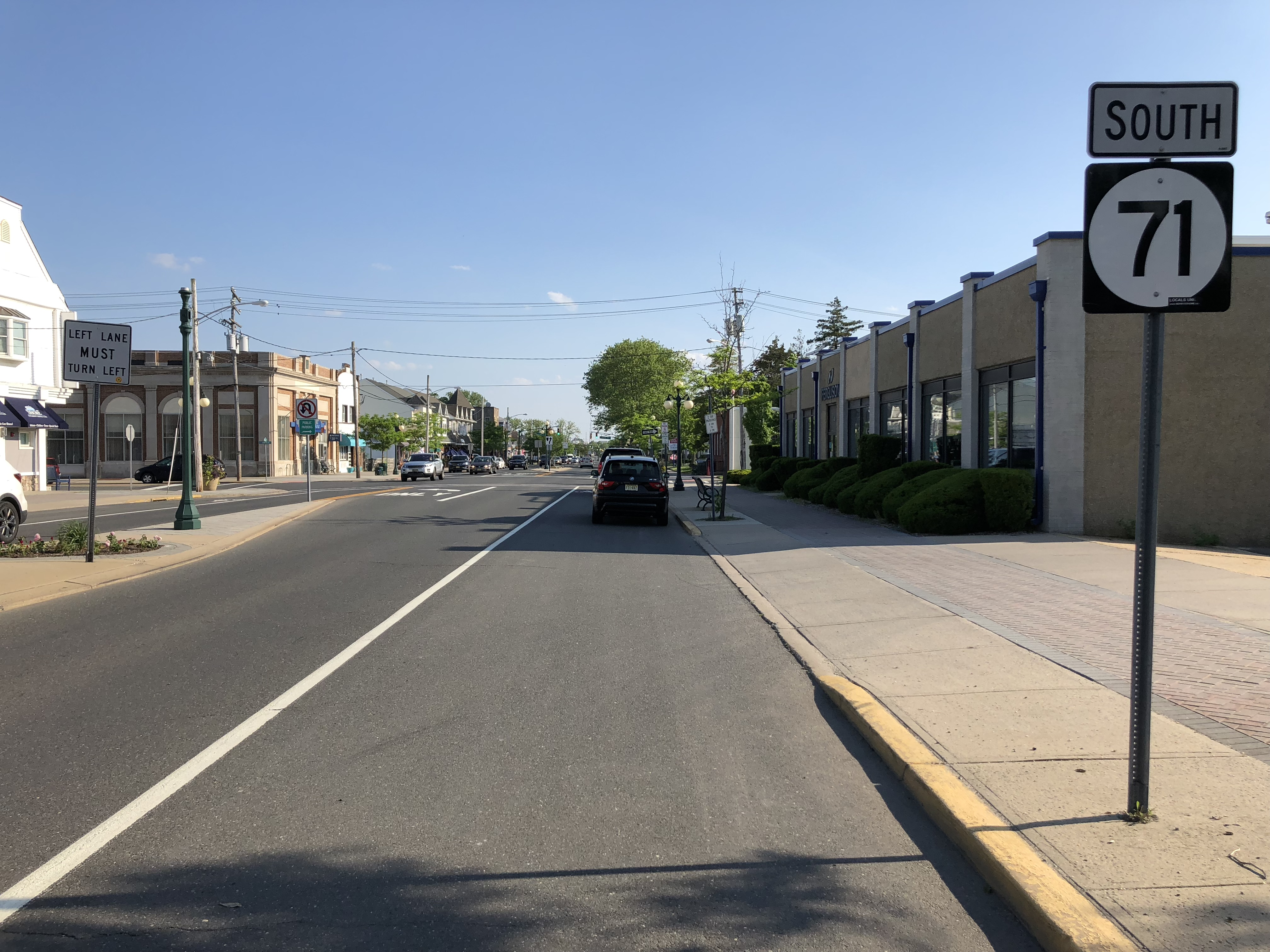 View south along New Jersey State Route 71 (Main Street) just south of Monmouth County Route 17 (Sylvania Avenue) in Avon-By-The-Sea, Monmouth County, New Jersey